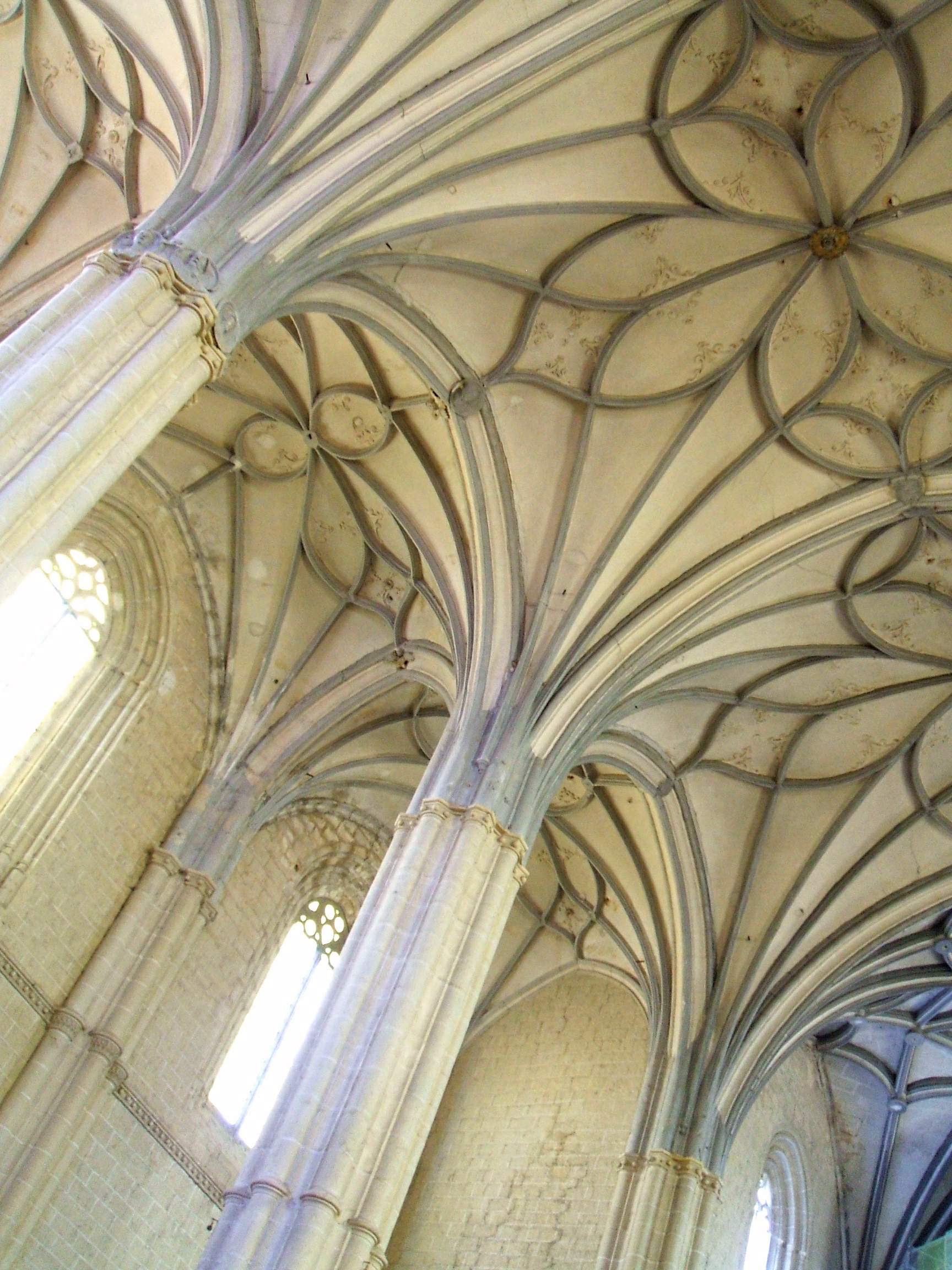 Vaults in the Church of Santa María de Mediavilla; Medina de Rioseco (Valladolid)